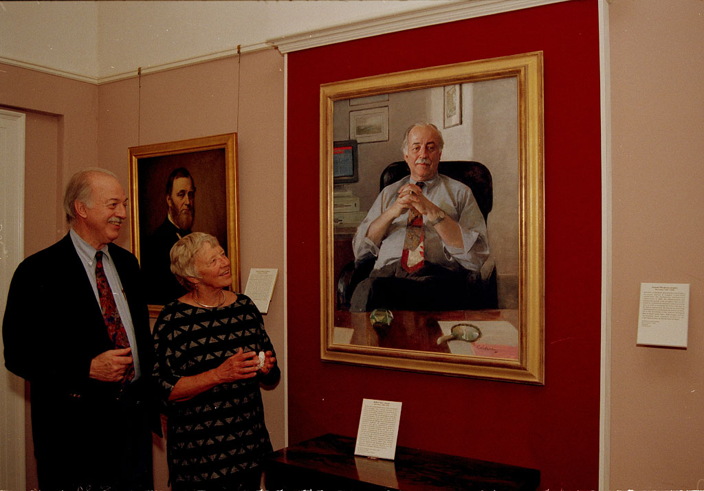 Secretary Adams and his wife, Ruth Skinner Adams, admire the portrait of the secretary, painted by Burton Silverman. It now hangs with the other portraits of Smithsonian secretaries on the second floor of the Smithsonian Institution Building.